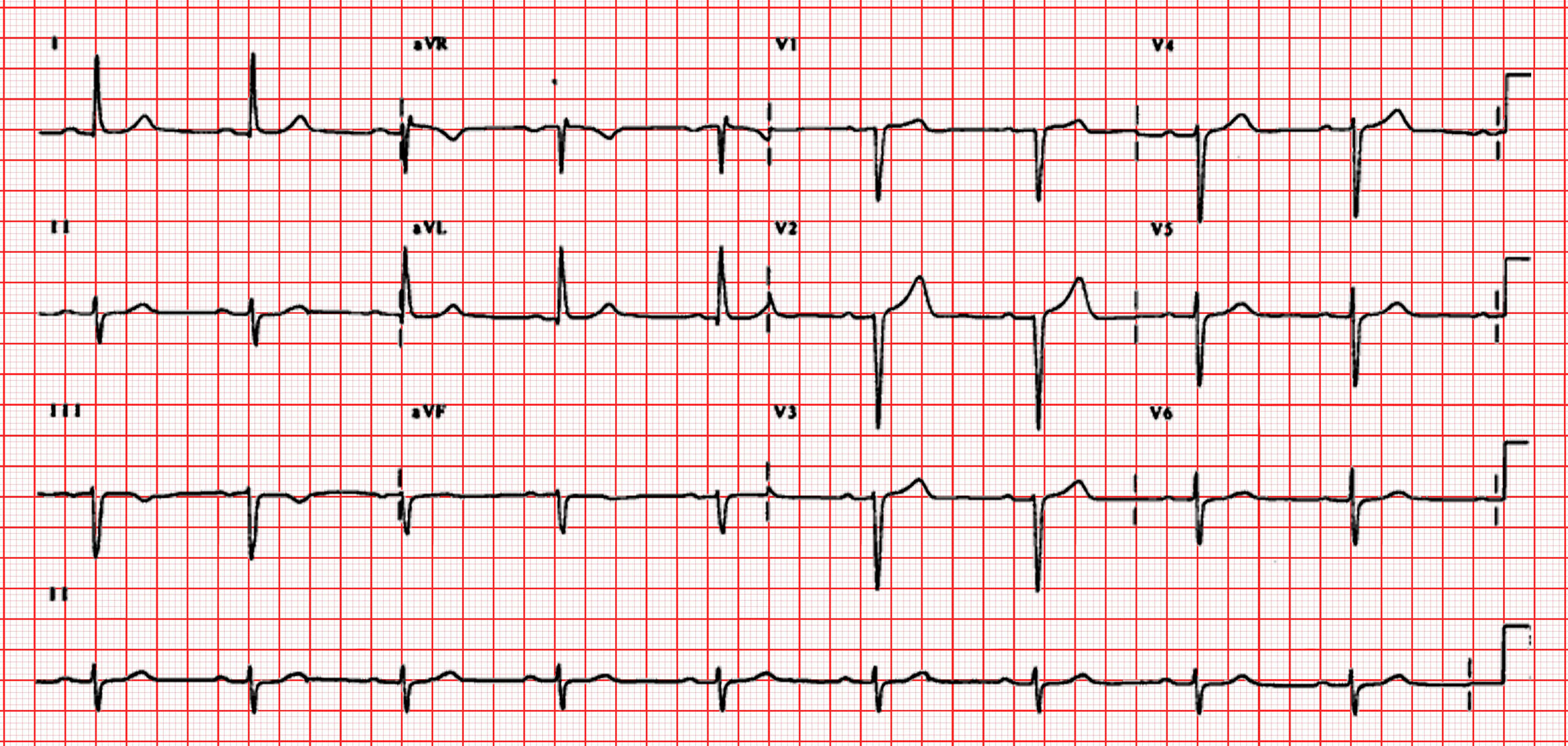 ECG diagram showing 1st degree AV block